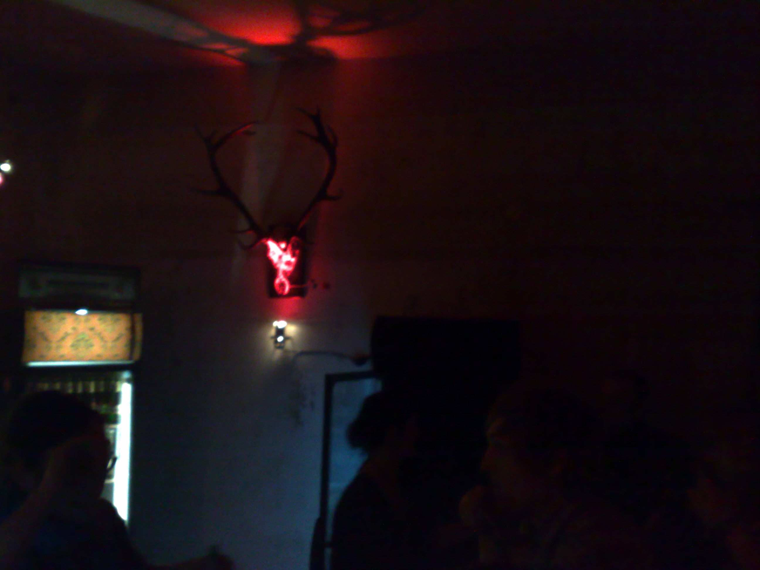 A bar at the Wilde Renate nightclub in Berlin in 2009.